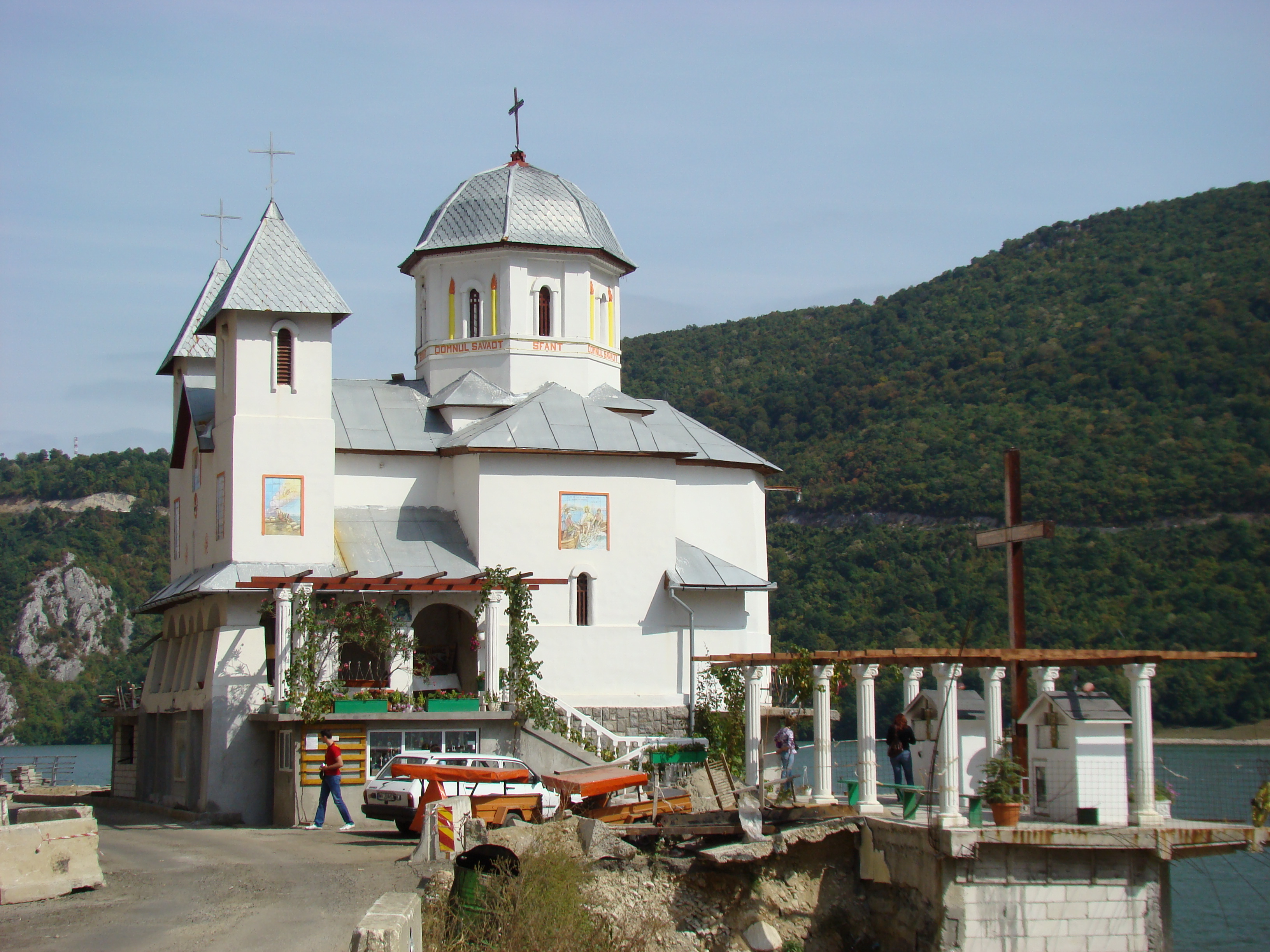 the Mraconia orthodox monastery by the Little-Cazan-Gorge of the Danube, near Dubova, Mehedinți County, Romania